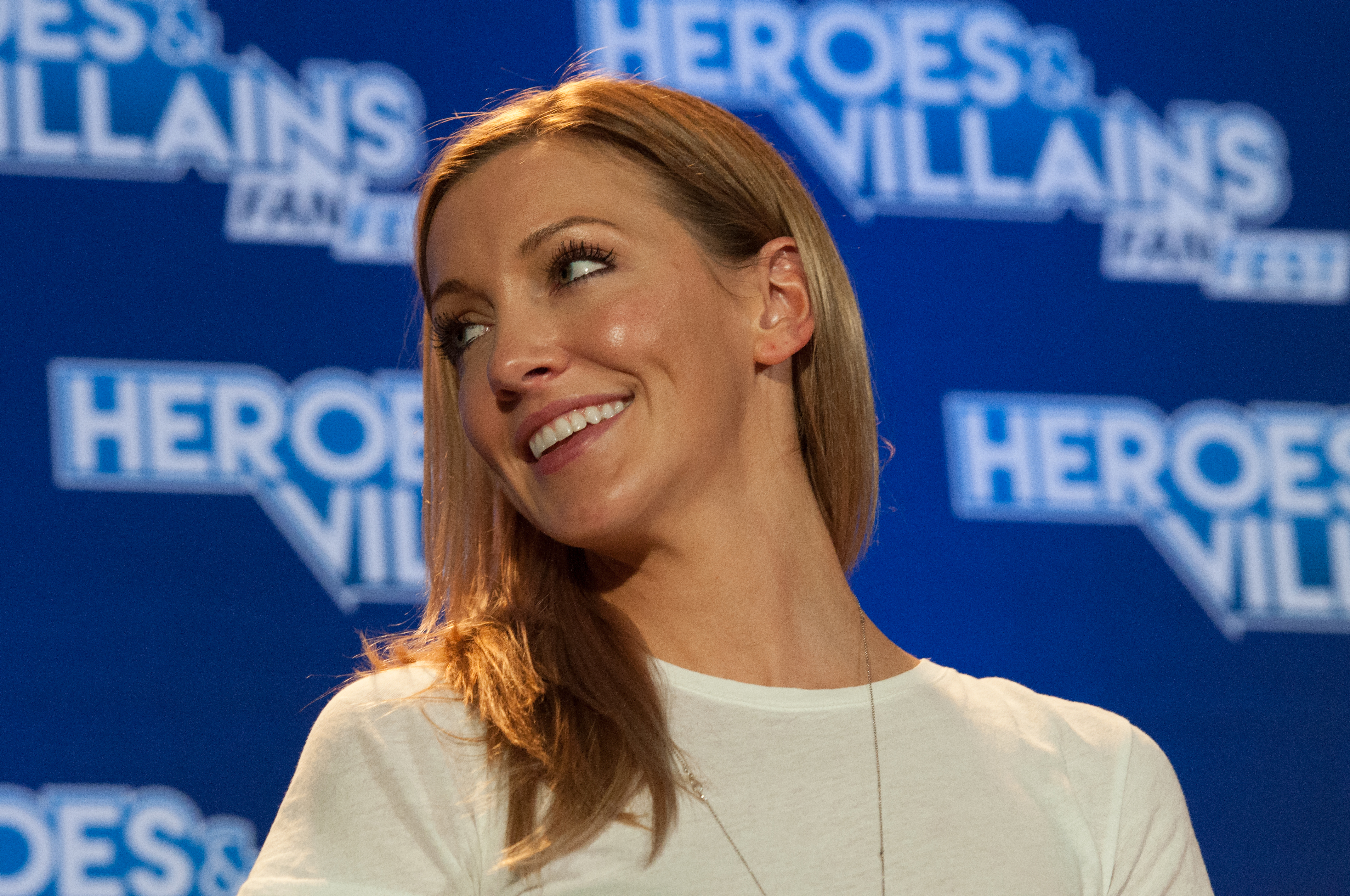 Katie Cassidy at HVFF London 2017